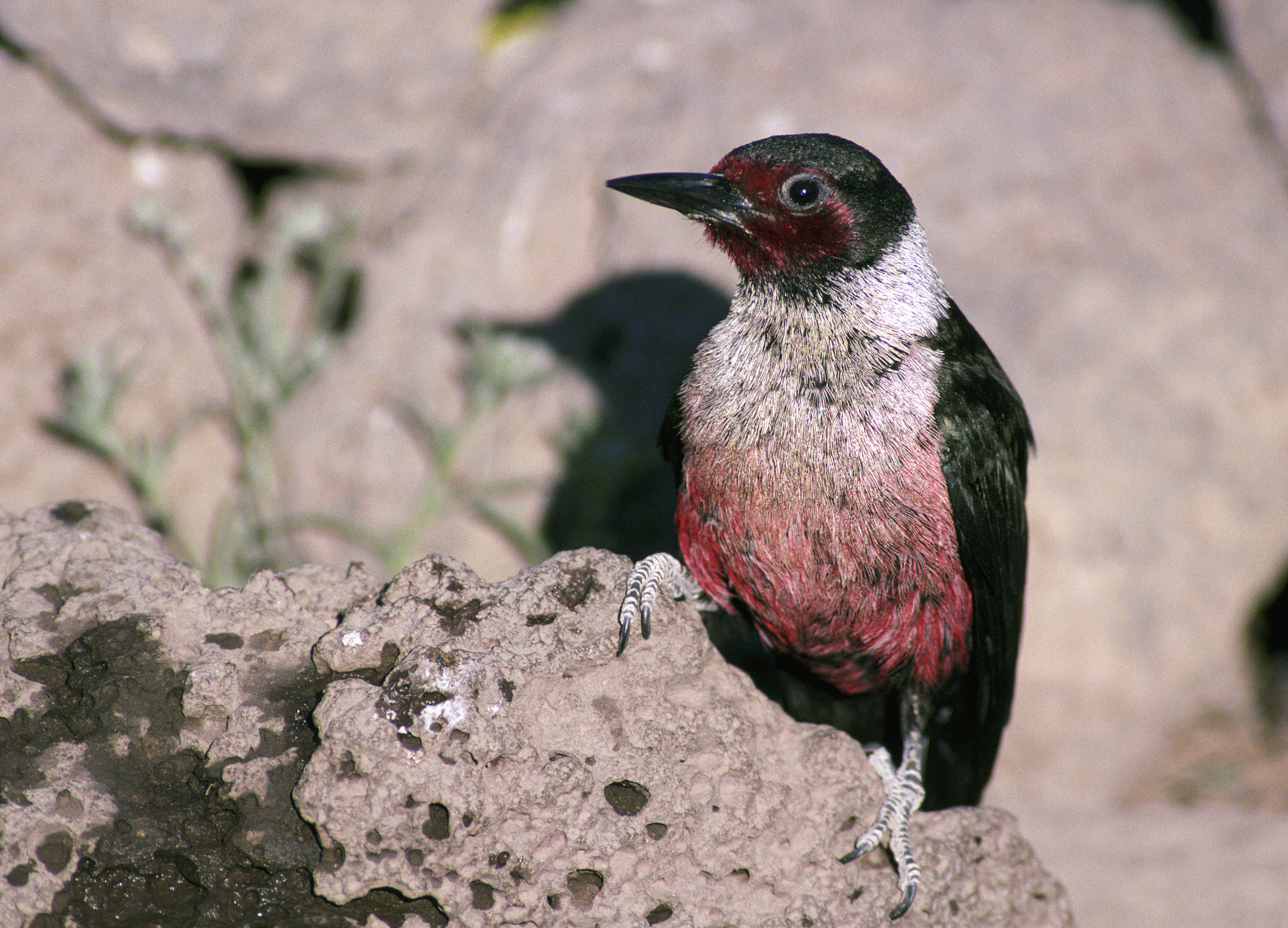 Lewis's Woodpecker (Melanerpes lewis) photographed in the Deschutes National Forests